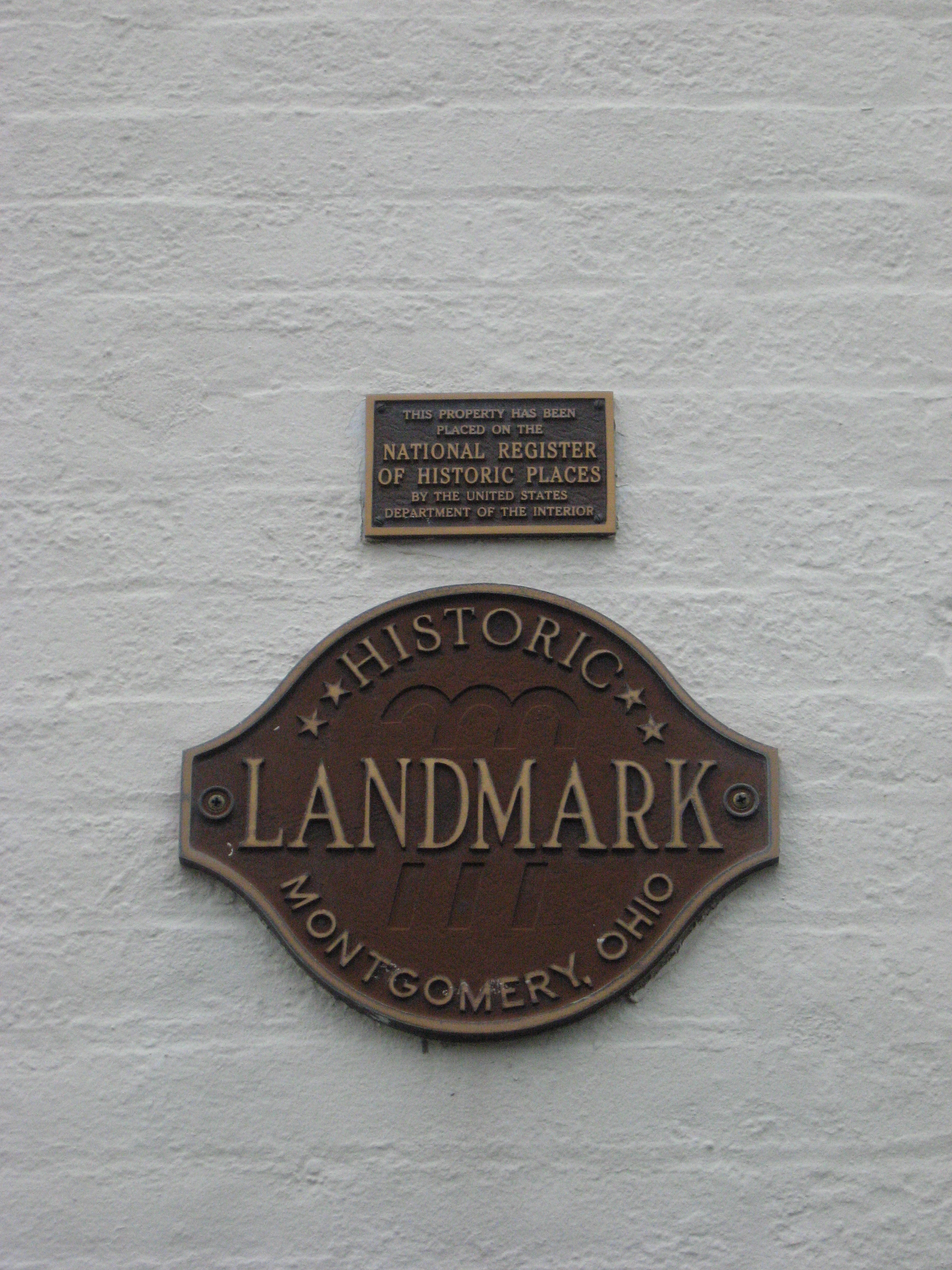 Two plaques commemorating a building inducted into the National Register of Historic Places. The plaque below lists the building as a part of a local historical society. The building identified is the Universalist Church Historic District (Montgomery, USA)